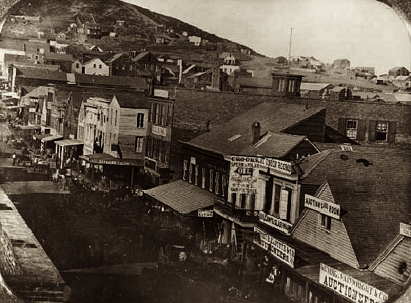 Frederick Coombs (1803-1874)